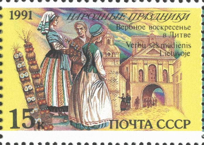 A USSR stamp